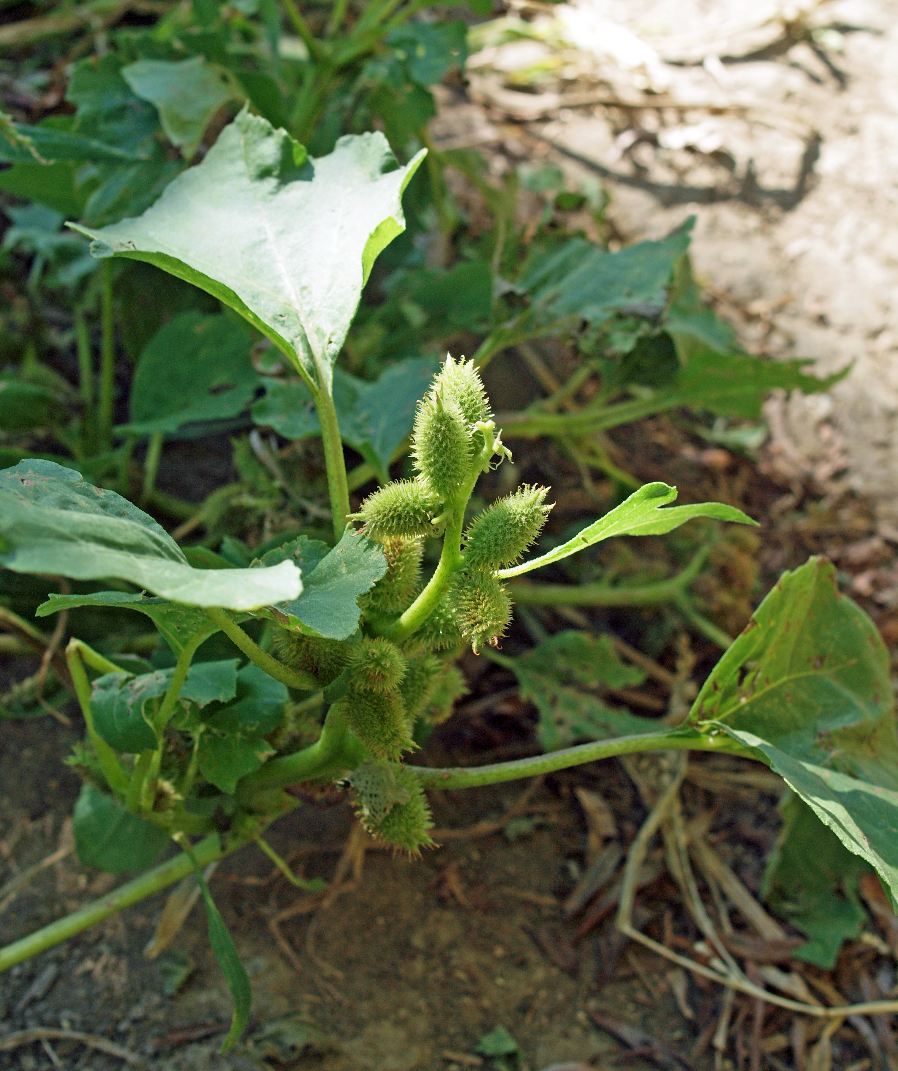 Xanthium albinum subsp. riparium, Slovakia, on bank of river March near Devinska Nova Ves.